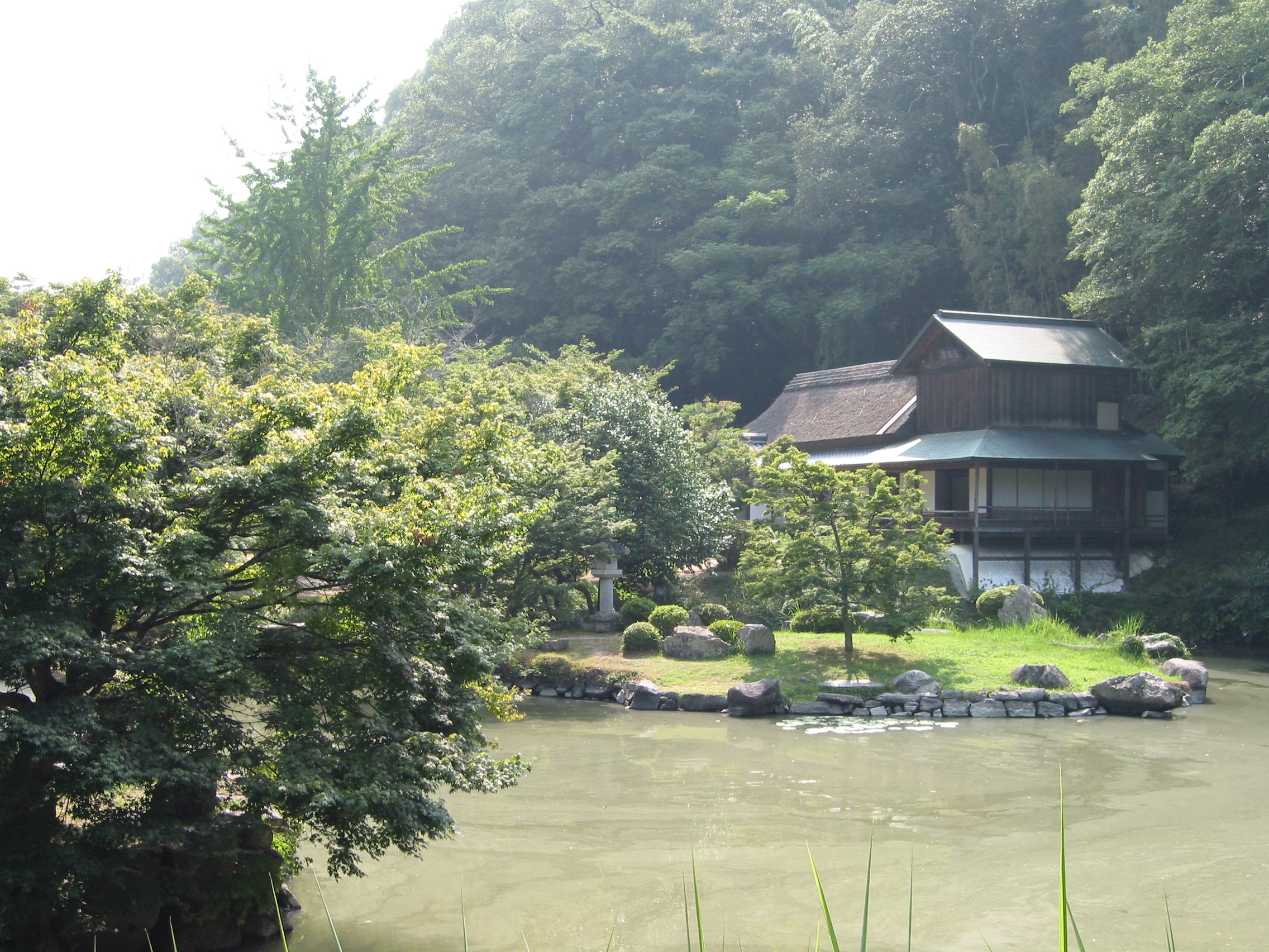 Omizu-en, the garden of Ashimori clan